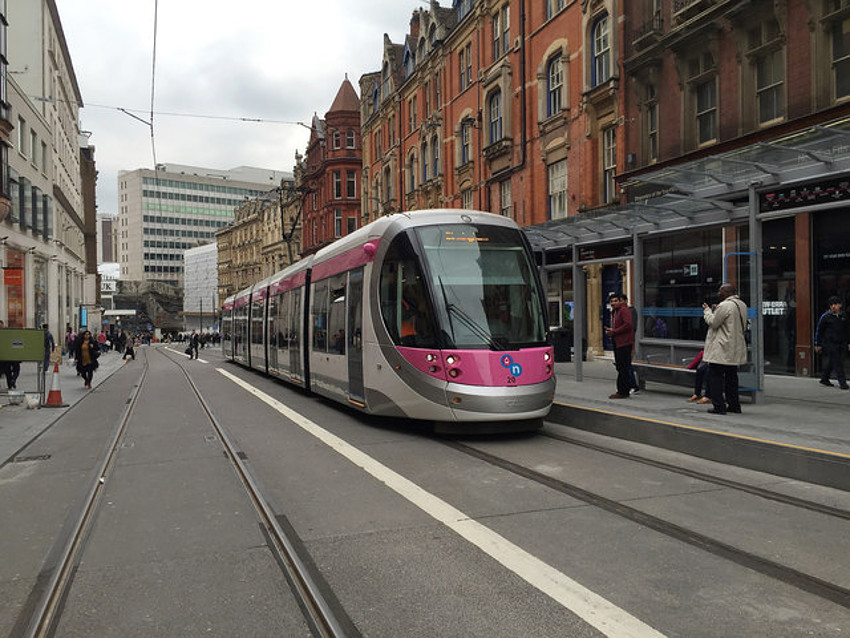 Midland Metro tram driver training in Corporation Street, Birmingham The extension of the line to Stephenson Street and New Street station (glimpsed distant centre left) opens on Monday 30 May 2016, a bank holiday. Next stop for this tram is Bull Street.